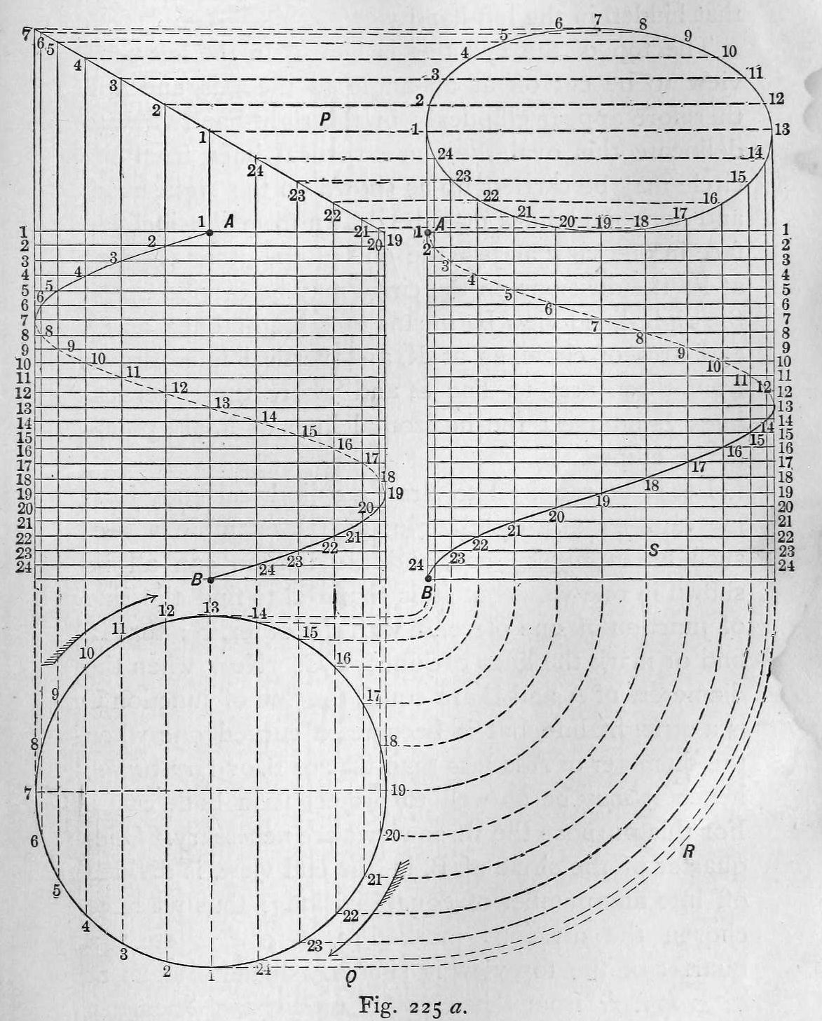 Mechanical Drawing Self-Taught, 1883 p. 179